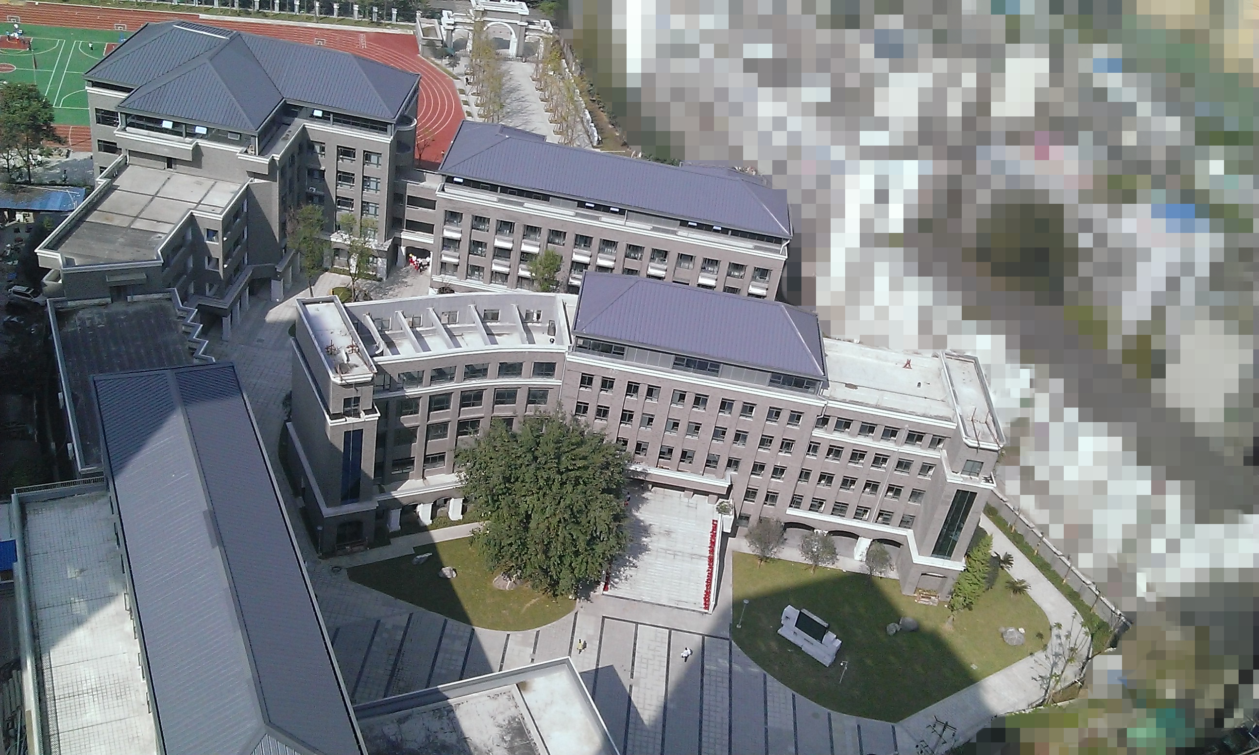 This is an aerial view of teaching buildings in Chengdu Shude High School.